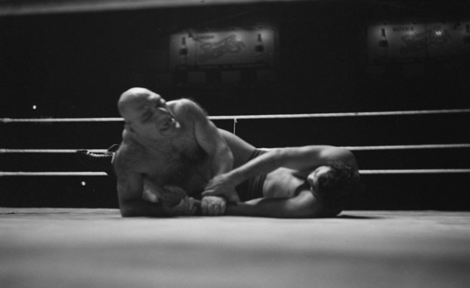 We see Maurice Tillet, nicknamed "The Angel" and Lou Thesz competing in the ring during a wrestling match.